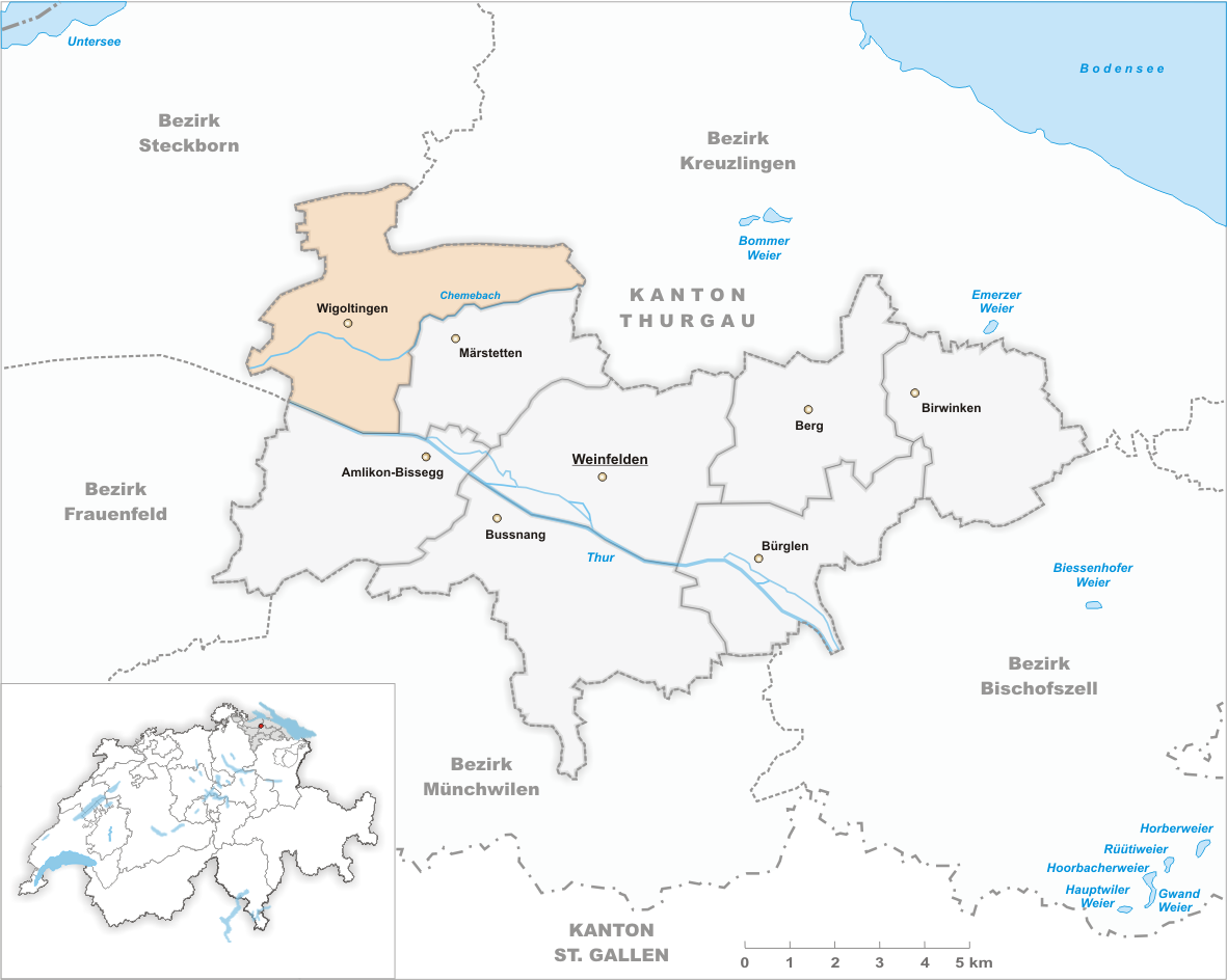 Municipality Wigoltingen